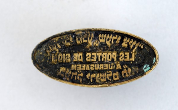 חותם בית הדפוס